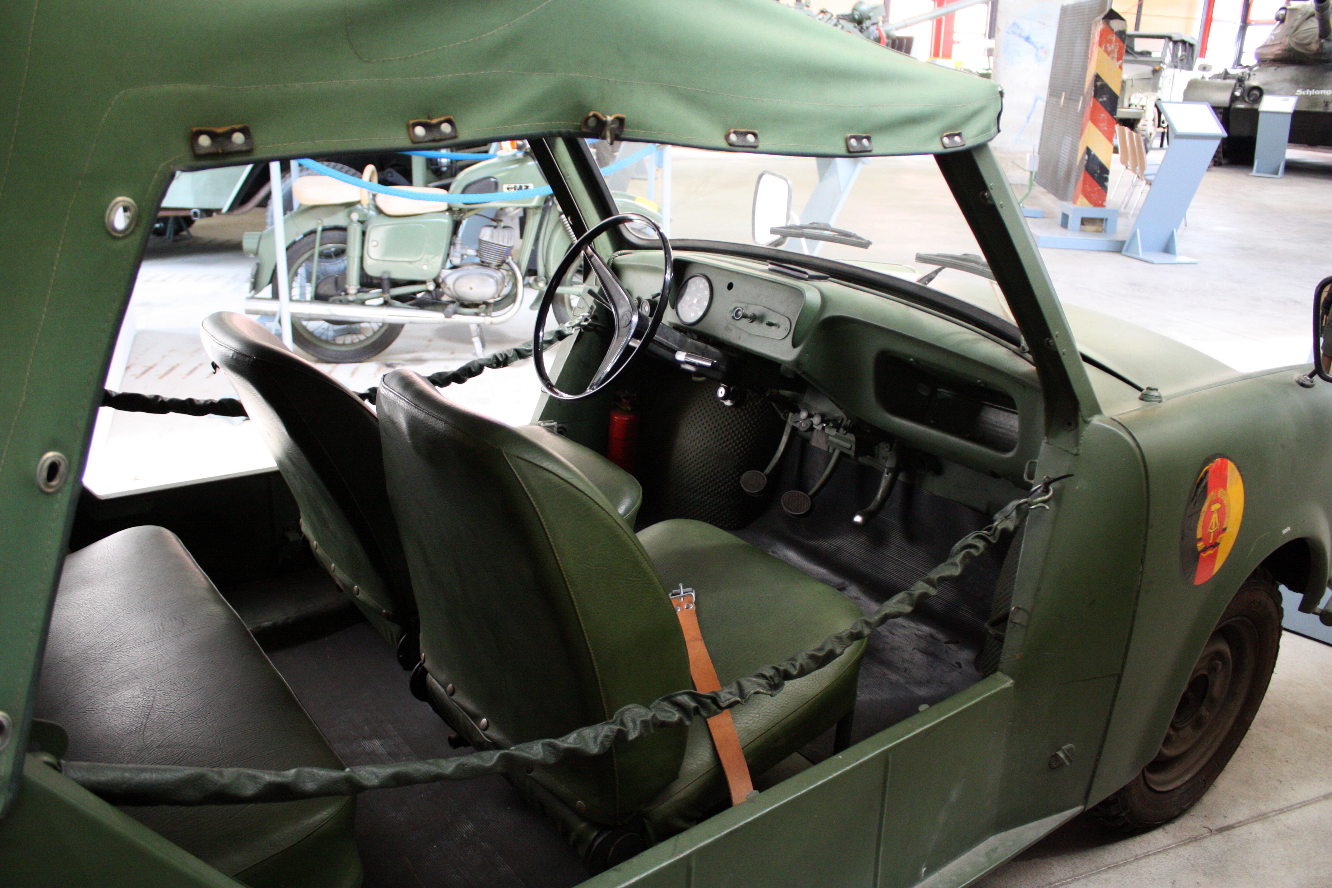 German Tank Museum